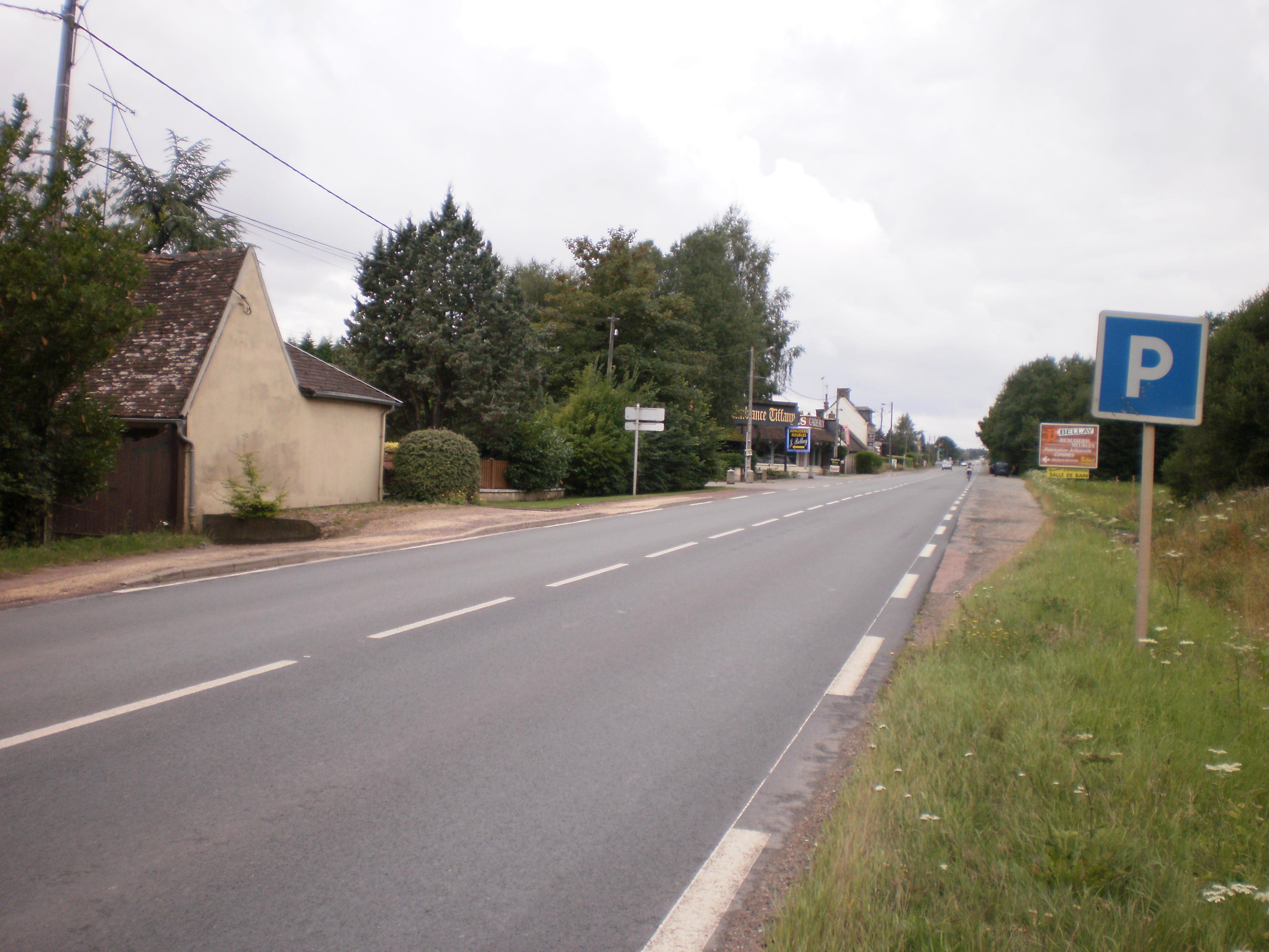 RN31